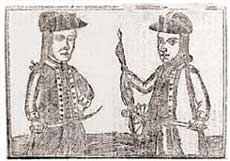 Daniel Shays, left, and Job Shattuck, shown in this engraving from Bickerstaff's Boston Almanack for 1787, led debt-ridden farmers against the Massachusetts state government. The rebellion dramatized the need for stronger central government. (National Portrait Gallery, Smithsonian Institution/Art Resource, NY)